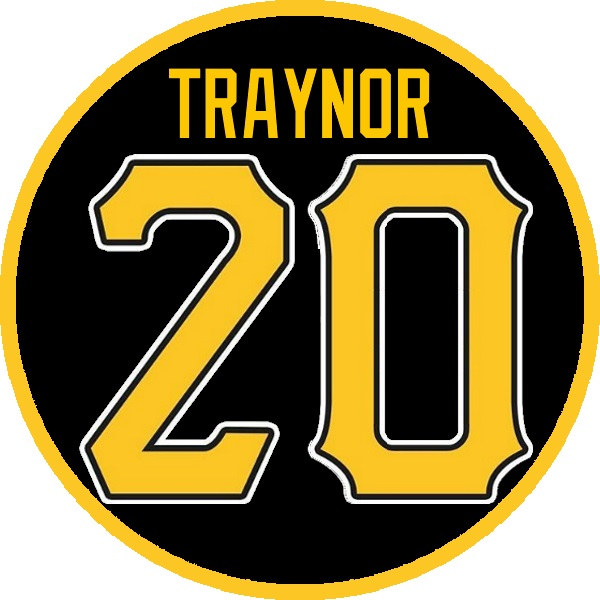 Illustration of Pittsburgh Pirates retired number